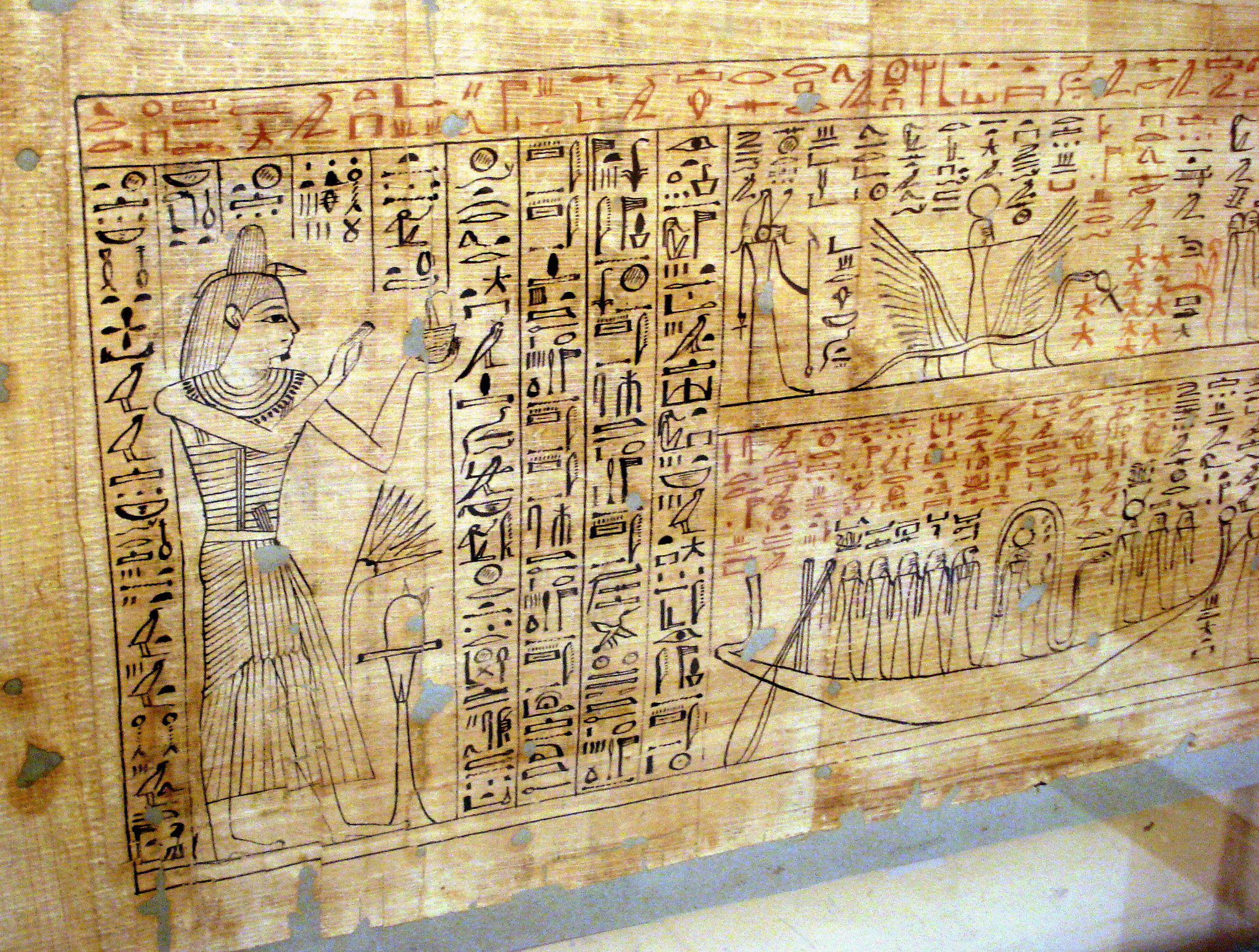 Egyptian Museum